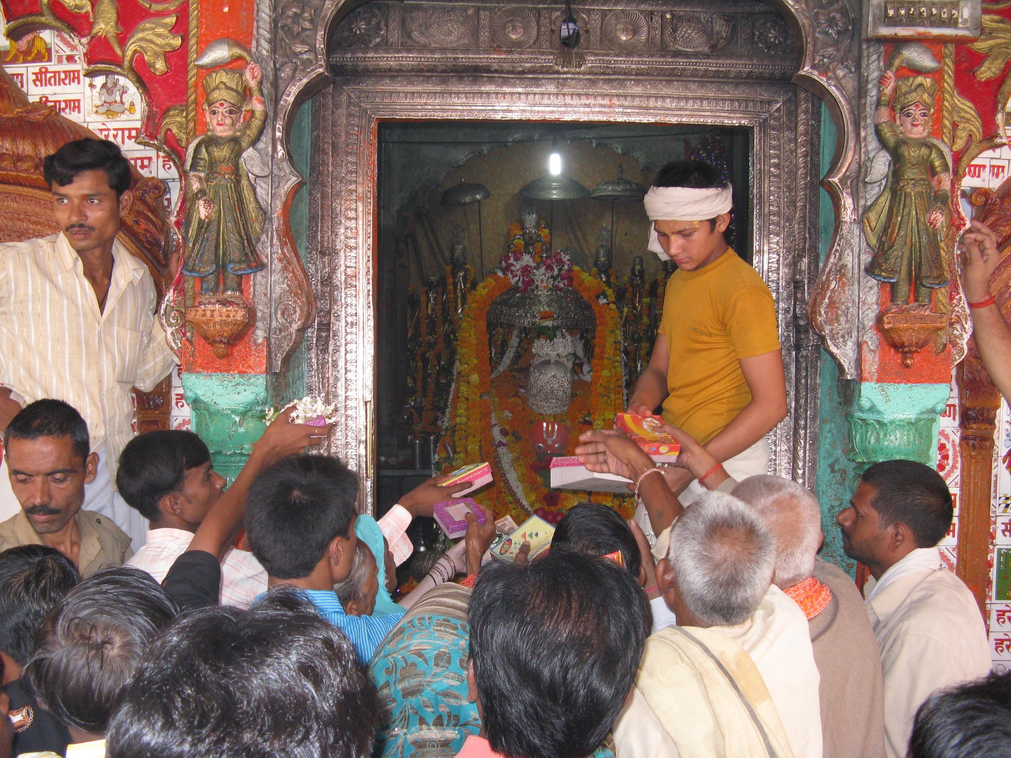 Famous Hanuman Garih temple. A Young Priest is operating the Darshan system.